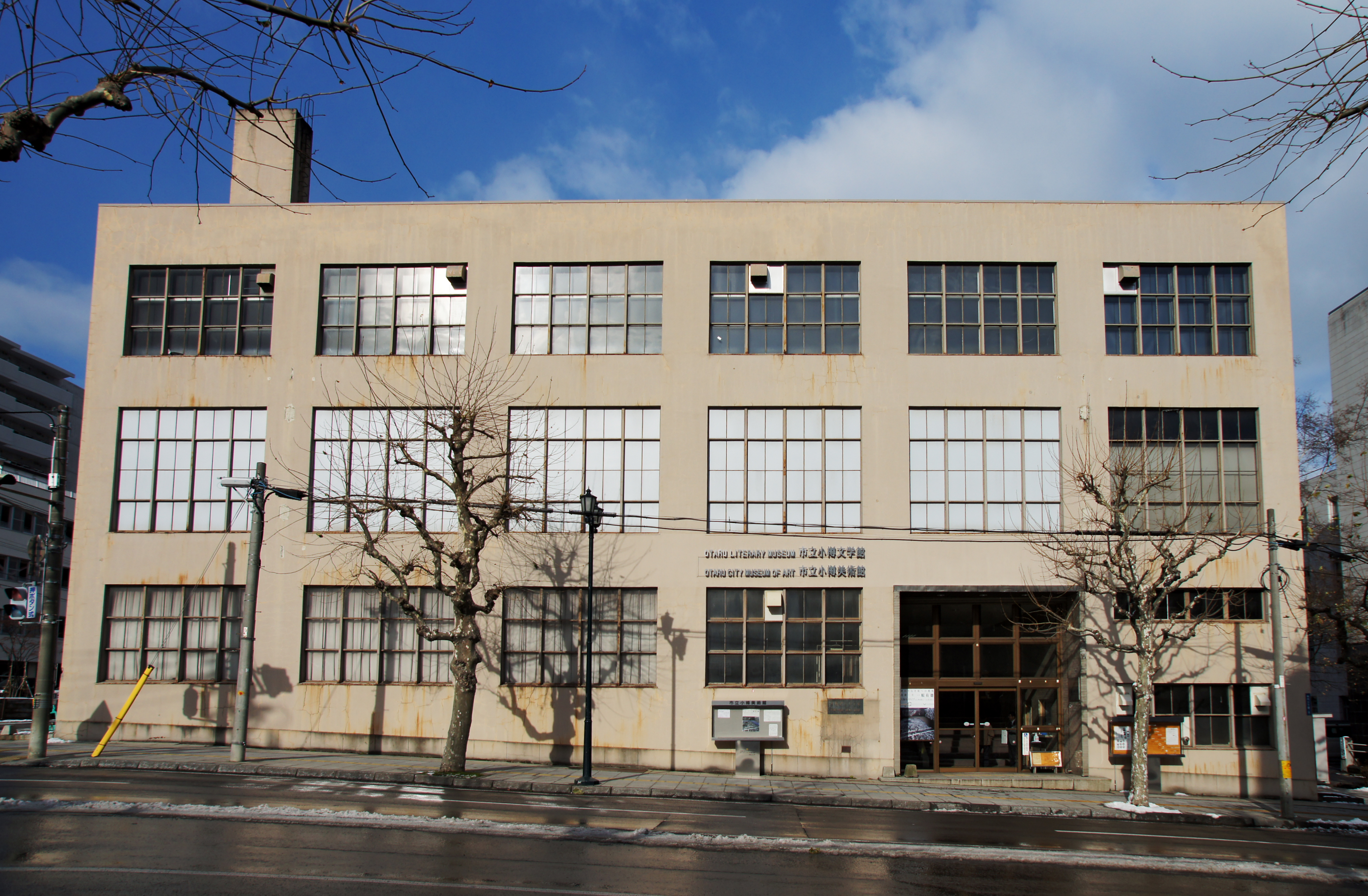 Otaru City Museum Branch in Otaru, Hokkaido prefecture, Japan